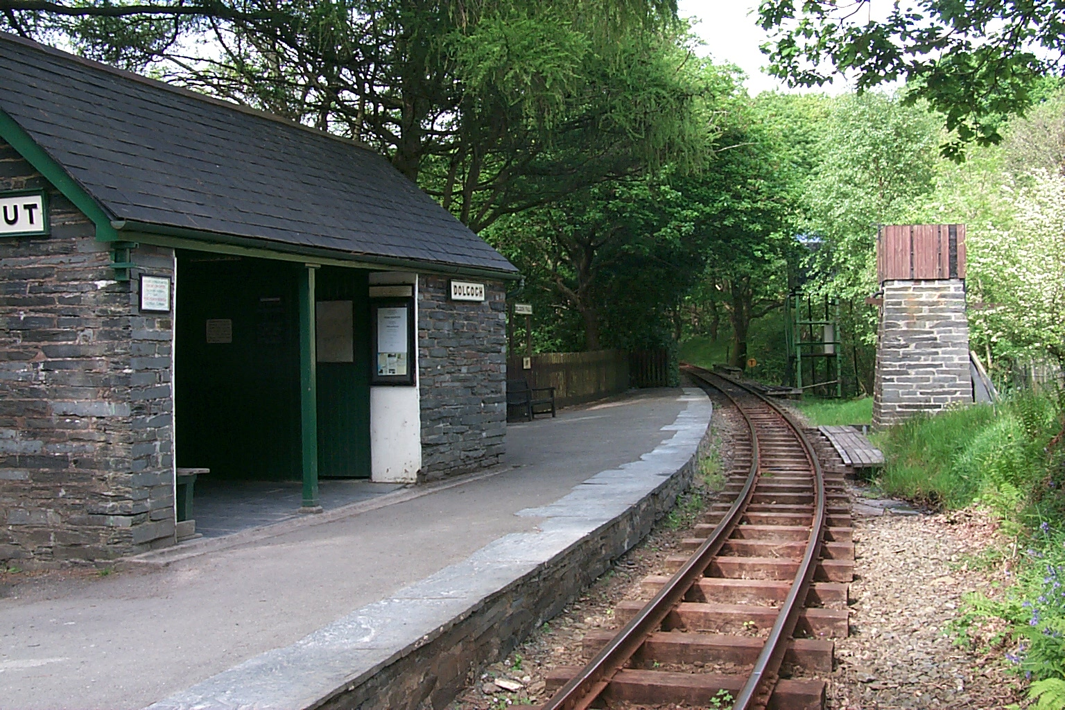 Dolgoch Station on the Talyllyn Railway Author: Dan Crow